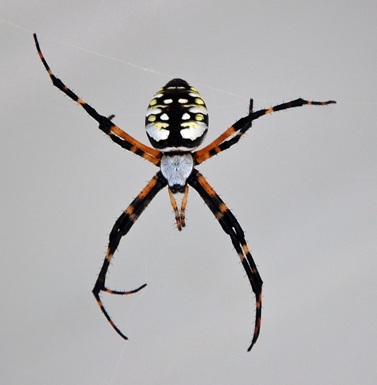 Spider, an Argiope aurantia